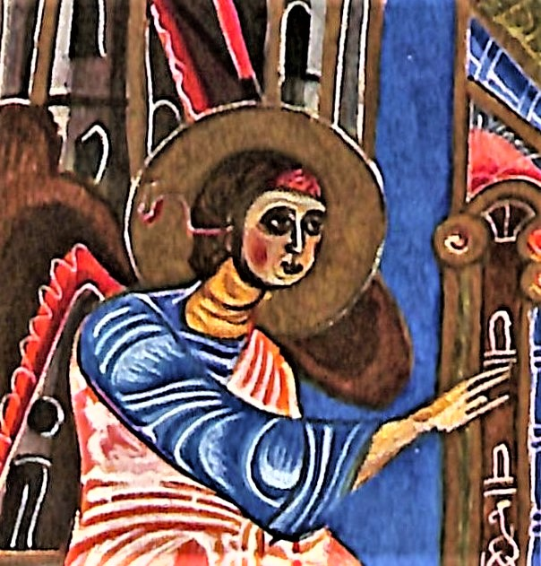 Angel Gabriel. Detail of Annunciation from 13th century Targmanchats Gospel